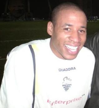 Matt hill after a game vs harlton while at PNE